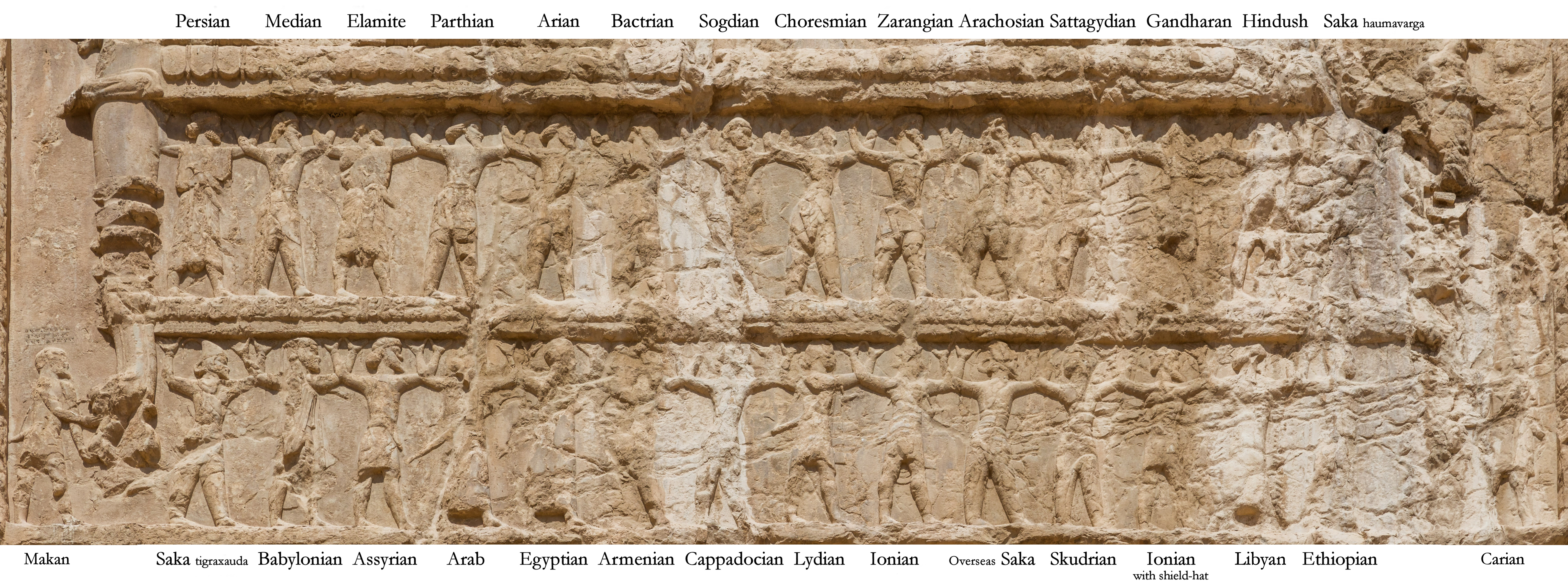 Names of the ethnicities on the relief.Tomb of Darius I Soldiers of the Empire with labels. Analysis List with corresponding drawings